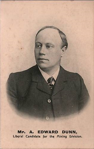 1906 A Edward Dunn Camborne 06 – D10